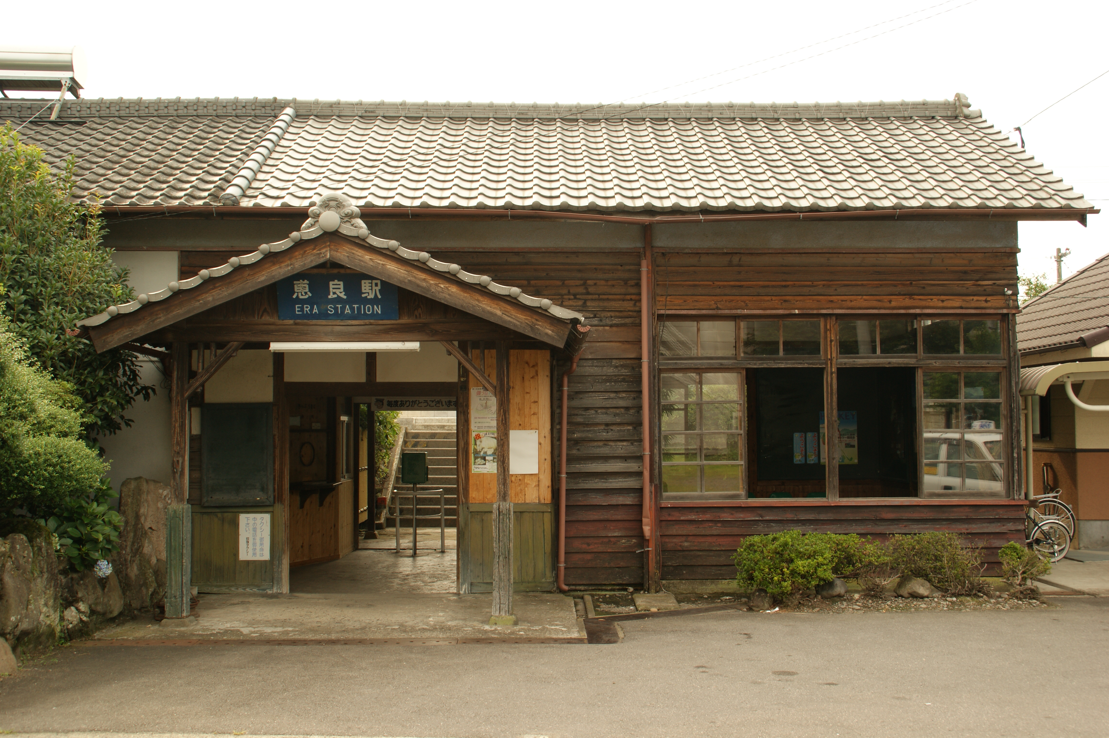 Era Station on the Kyudai Main Line in Kokonoe, Oita Prefecture, Japan